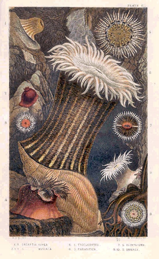 Sea anemones and corals : 1. Sagartia nivea, 2. 3. 4. Sagartia miniata,; 5. Sagartia troglodytes, 6. Sagartia parasitica, 7.Sagartia îcthystoma.8. 9. Sagartia ornata